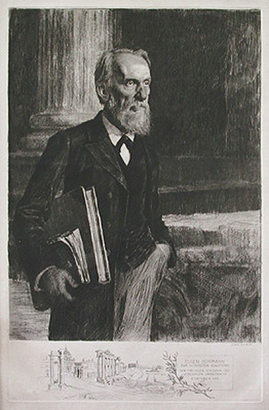 German Classical scholar an historian Eugen Bormann (1842-1917)